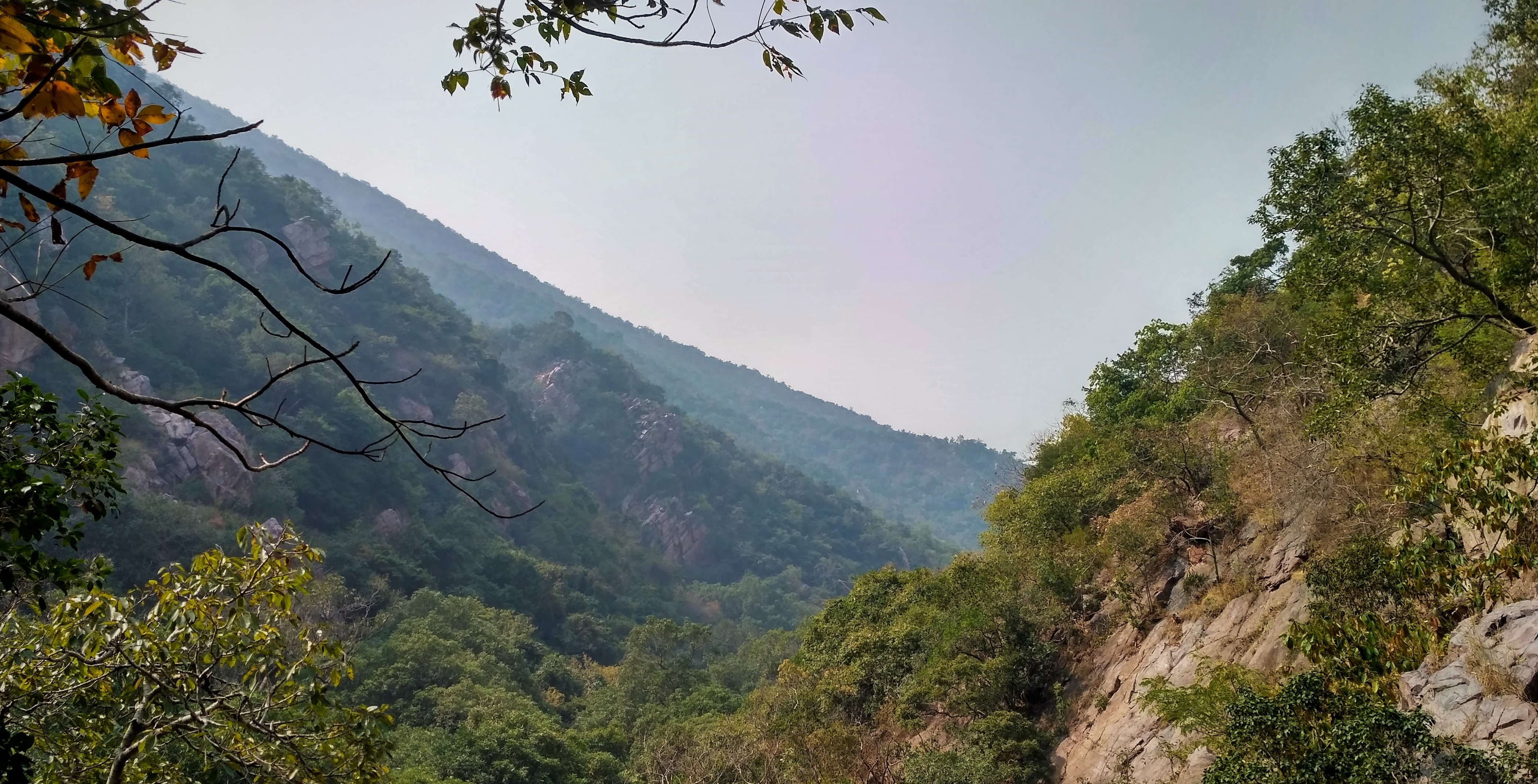 View of a valley seen on the trek route